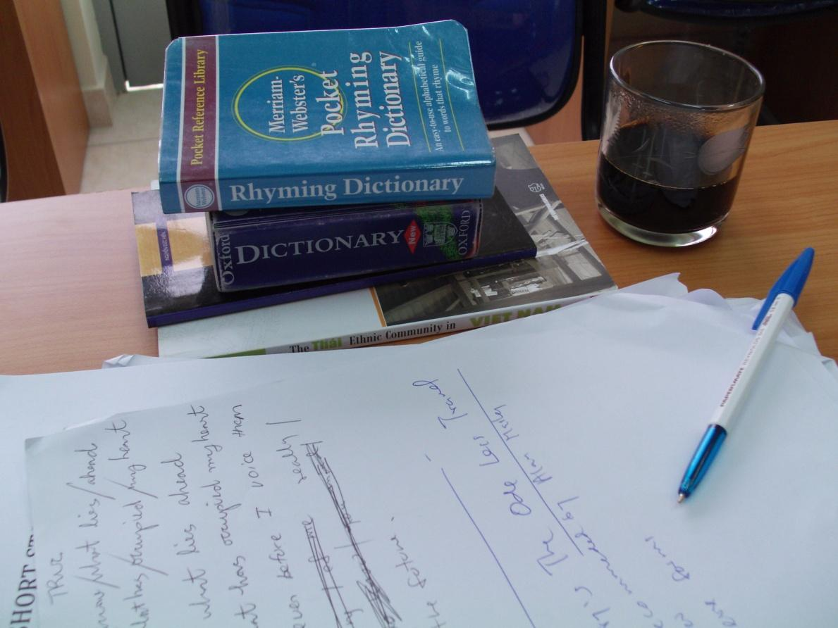 This is an image I took in Saigon, Vietnam last year (2008).